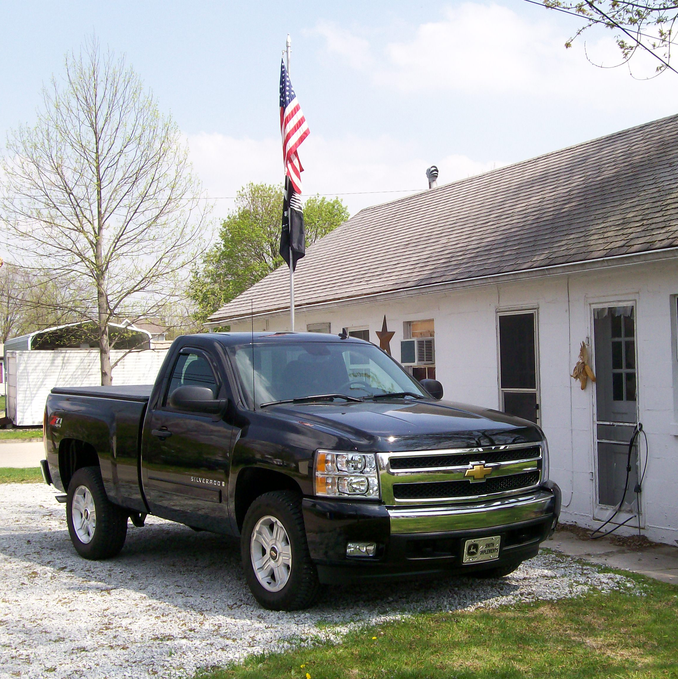 Author: Brian Wallen (Myself) Source: Myself